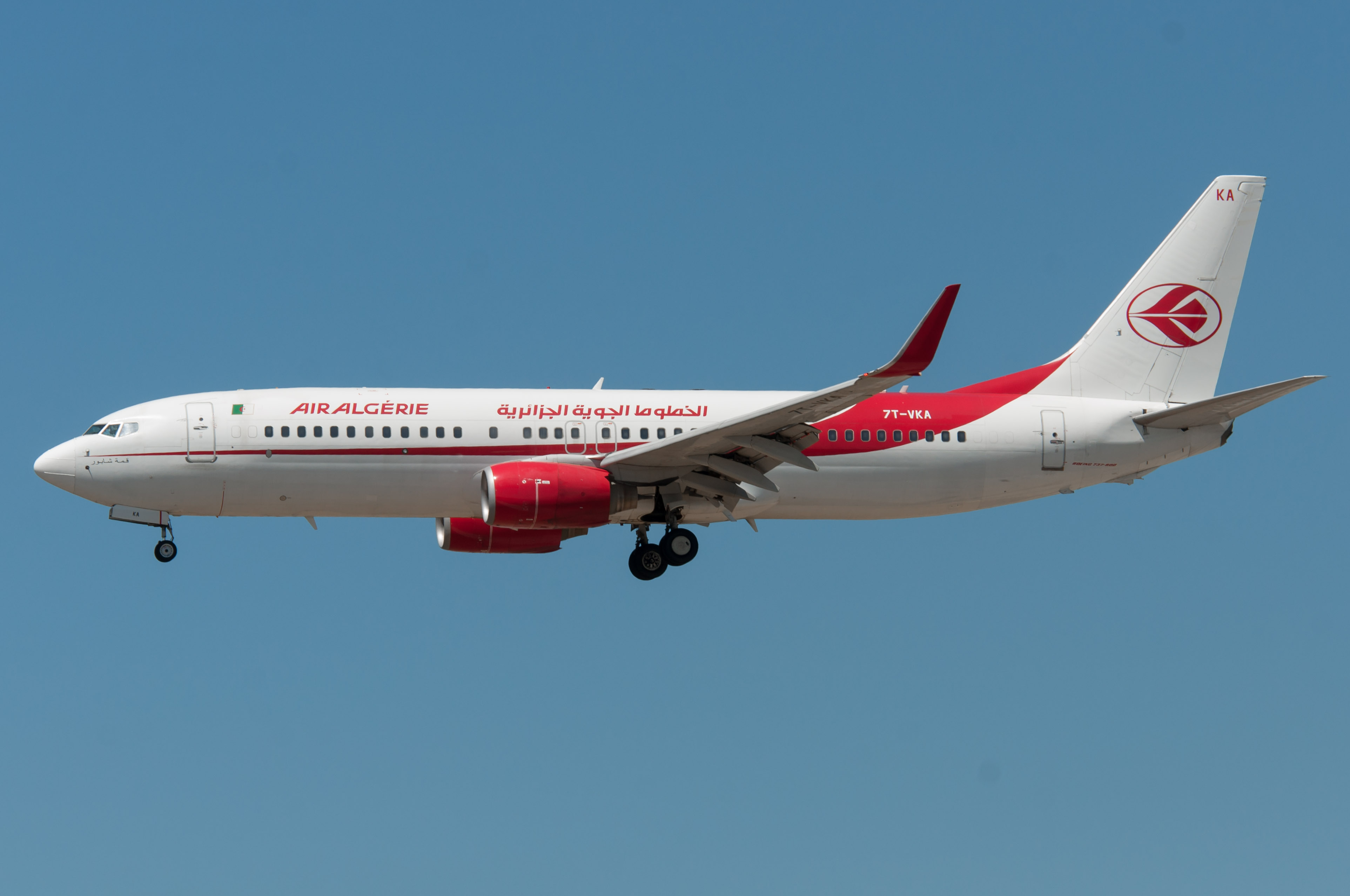 Frankfurt, July 2015